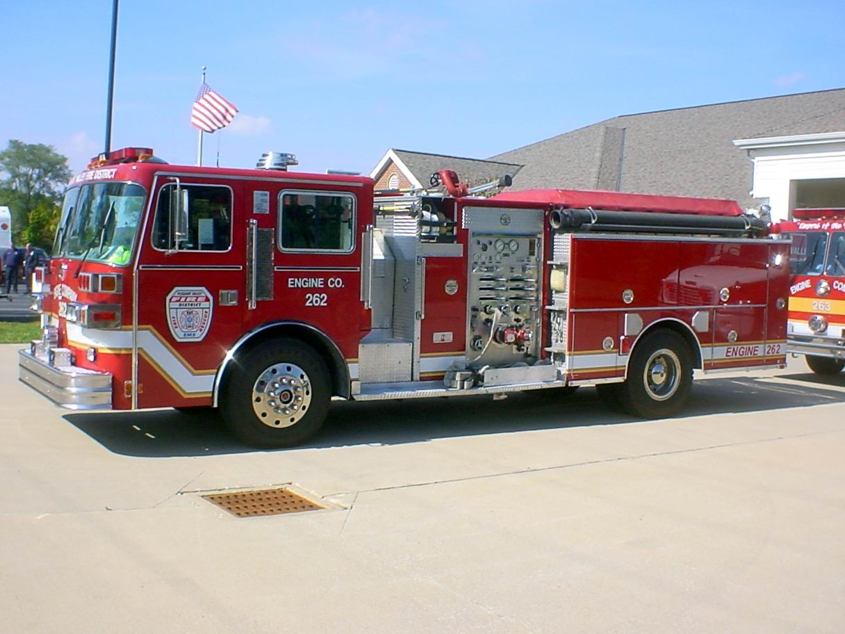 1987 Sutphen fire engine, photographed October 11, 2009 by Adolphus79.